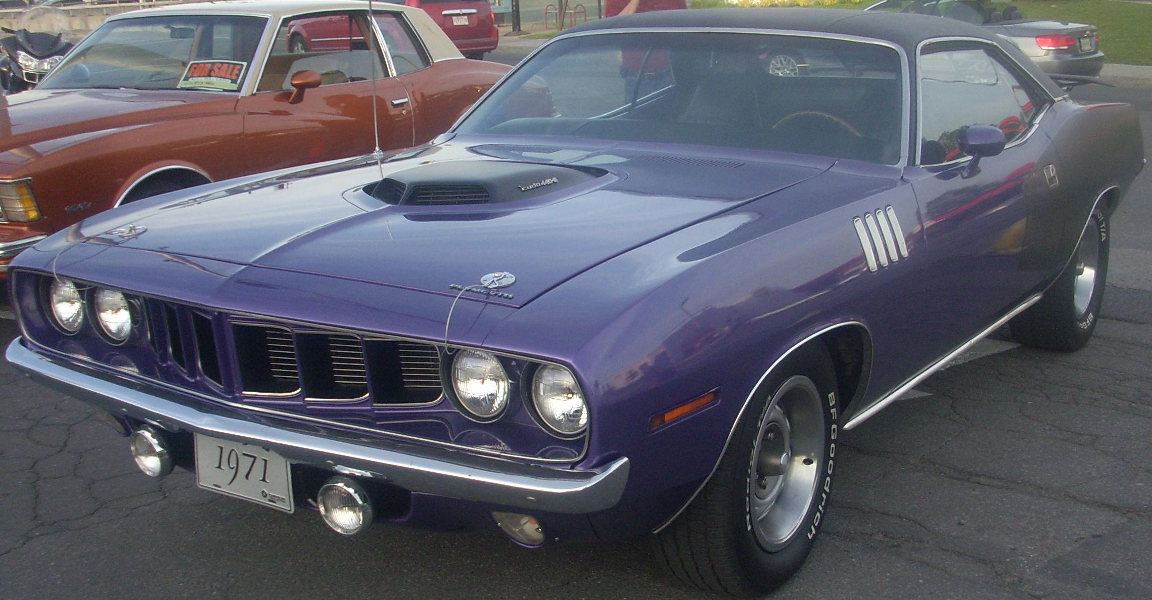 1971 Plymouth Barracuda photographed in Montreal, Quebec, Canada at Gibeau Orange Julep